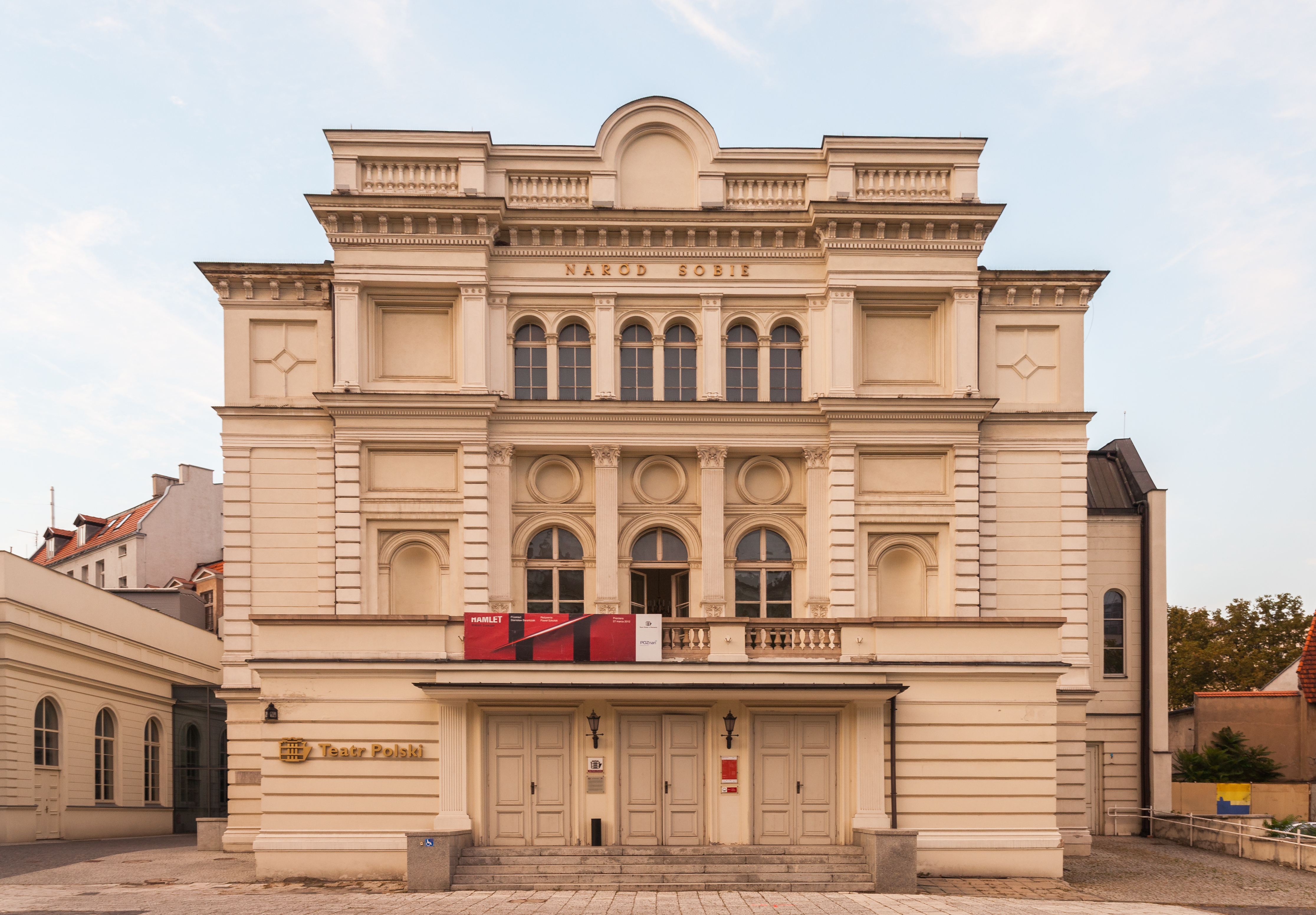 Polish Theatre, Poznań, Poland